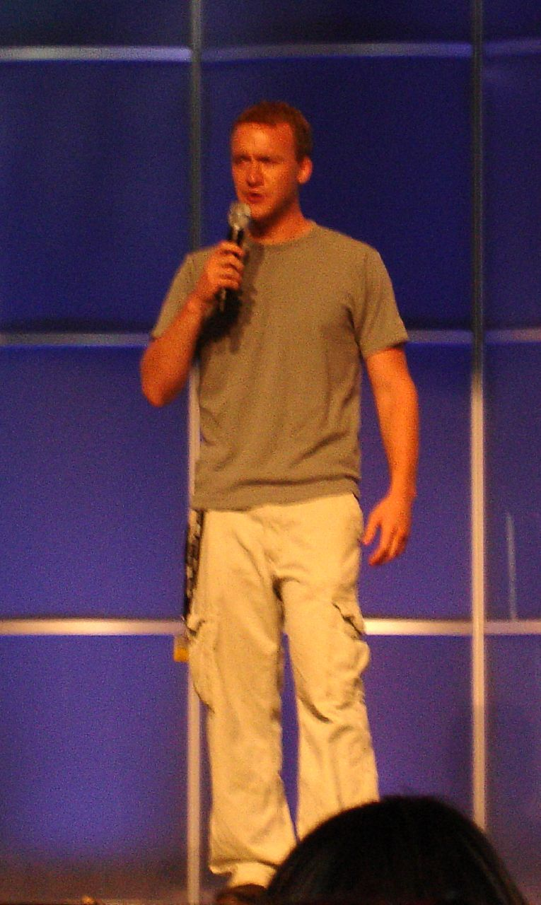 Ben Shultz, the "real life" Leeroy Jenkins.